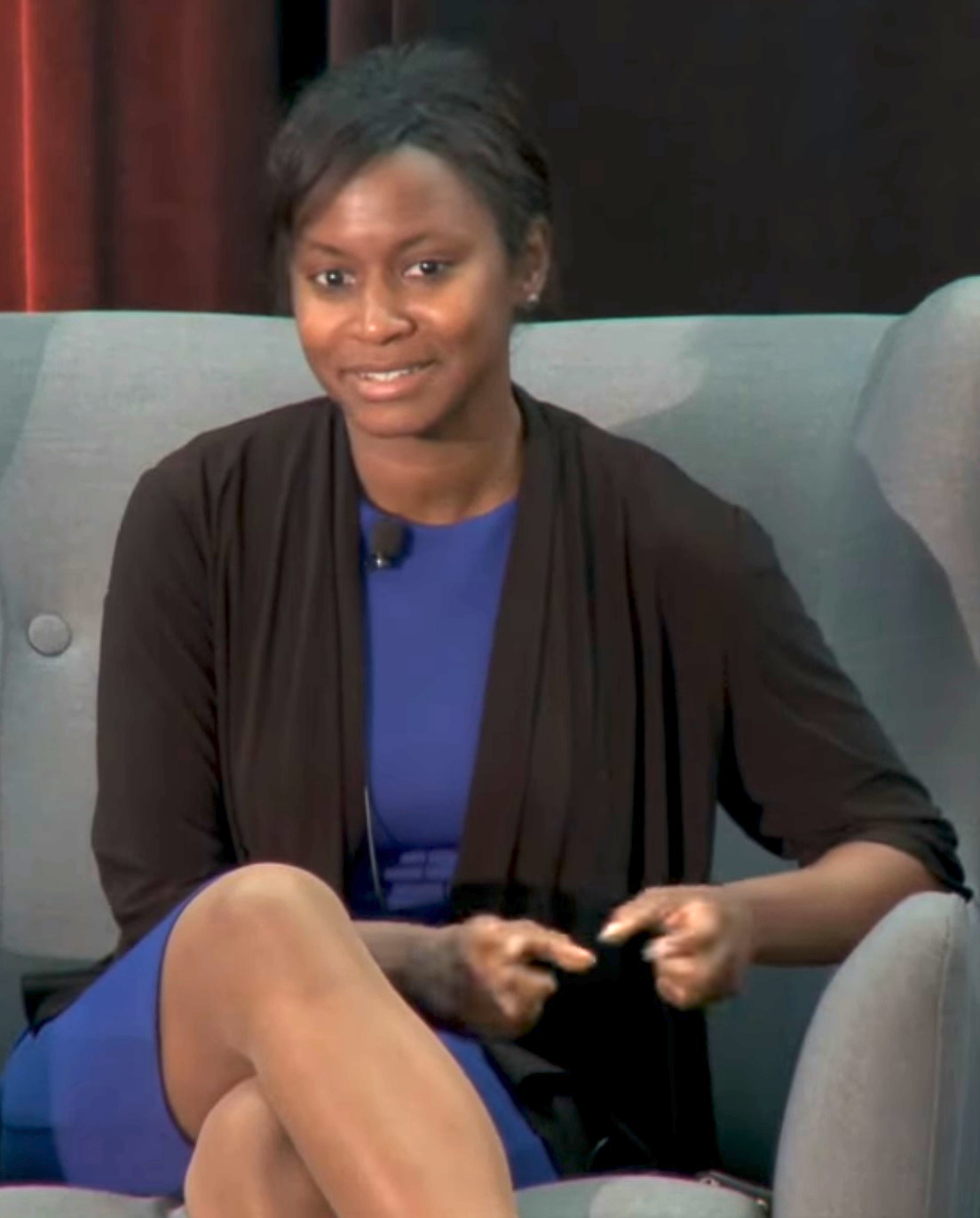 Etosha Cave Opus 12 5th Annual C3E Women in Clean Energy Symposium May 31, 2016 | Stanford University